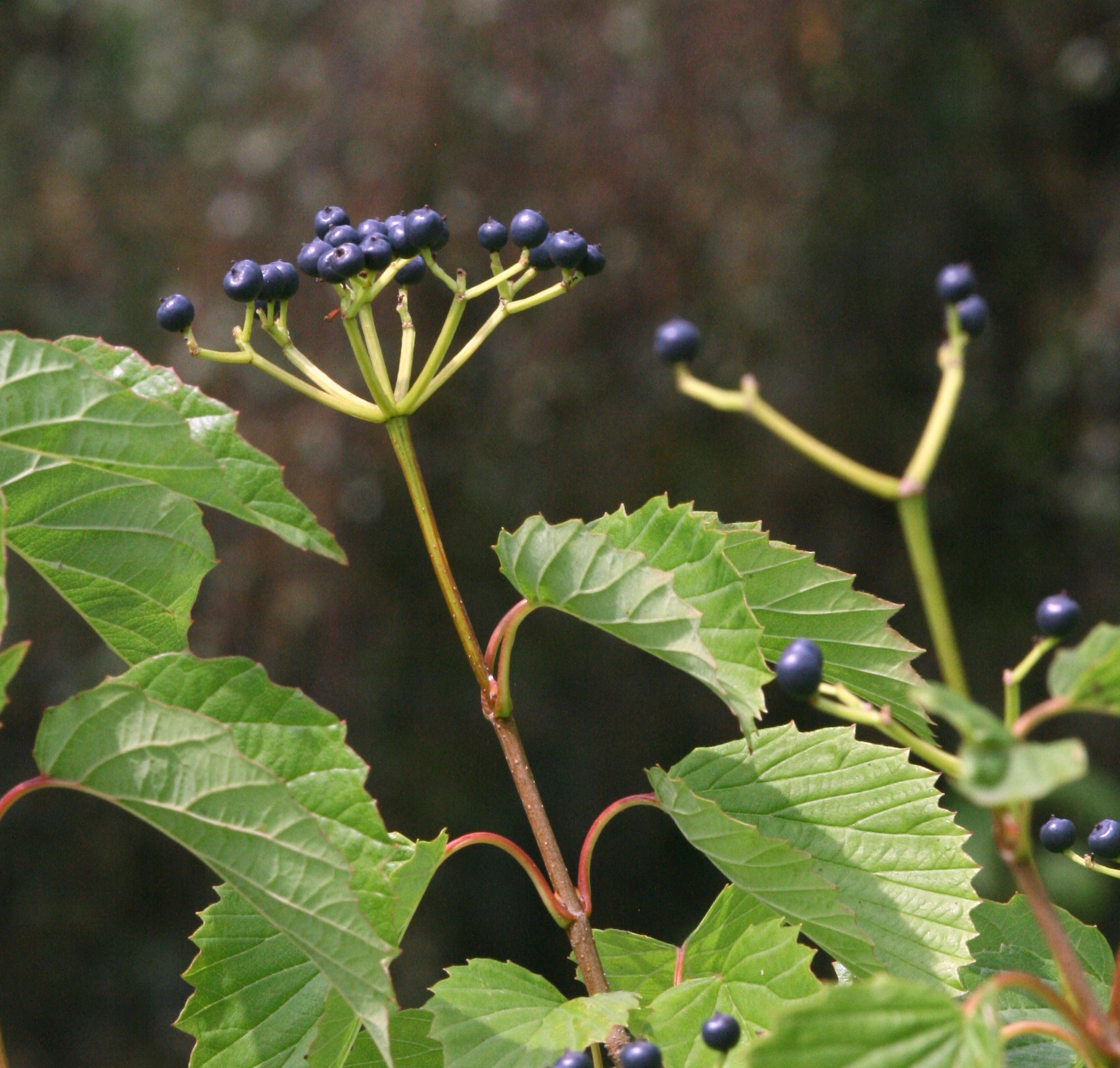 Viburnum dentatum, Dendrological Garden Pruhonice, Czech Republic